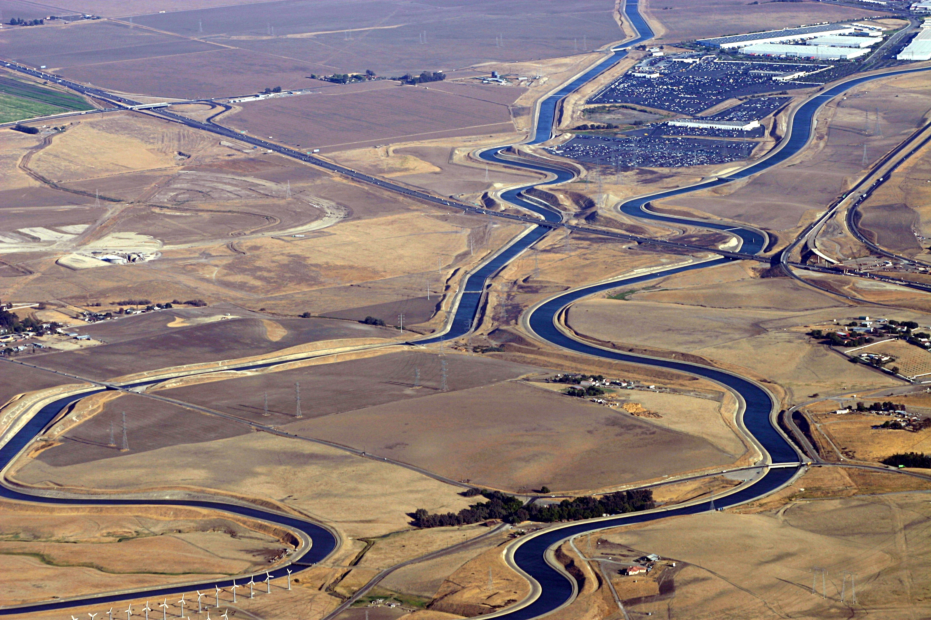 Aerial photo of the California Aqueduct at the Interstate 205 crossing, just east of Interstate 580 junction.